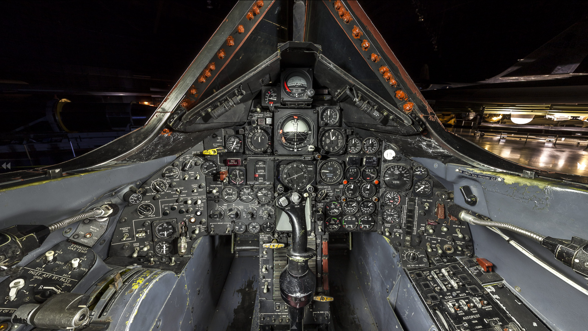 Lockheed SR-71A Blackbird, National Museum of the United States Air Force, Wright-Patterson Air Force Base, near Dayton, Ohio, USA, cockpit, forward view